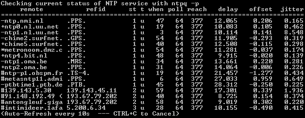 The ntpq utility program is used to monitor Network Time Protocol daemon operations and determine performance. Status message of the NTP daemon. Columns from left to right: status of 'peers' (*: Current main peer; +: Candidate for synchronization; #: No current candidate for synchronization; -: Not considered for synchronization); Server name (remote); Time source ID, the IP of the server from which the peer has the time (refid); Stratum of the server (st); Type of server (u: Unicast); when the last time was interrogated in seconds (when); is the interval at which the server is polled (poll in seconds); how often the server has been reached (reach; 377 means that the last 8 queries were successful, a shift register); the running time (round trip time, milliseconds) of the NTP packet (delay); the offset of the local clock to the server (offset in milliseconds) and how strong the requested time varies (jitter, milliseconds)